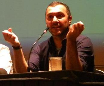 Bay J, a Turkish-Italian radio programmer and comedian.